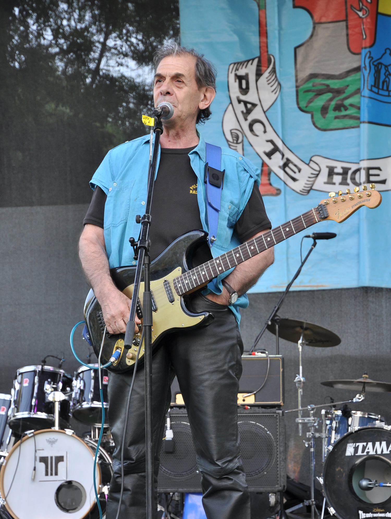 Petar Gyuzelev, member of the Bulgarian rock band Shturtzite, solo appearance during the festival "Flower for Gosho 2011" at South Park, Sofia.